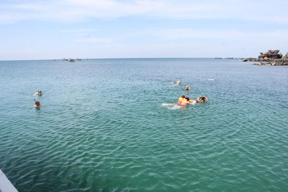 Phu Quoc